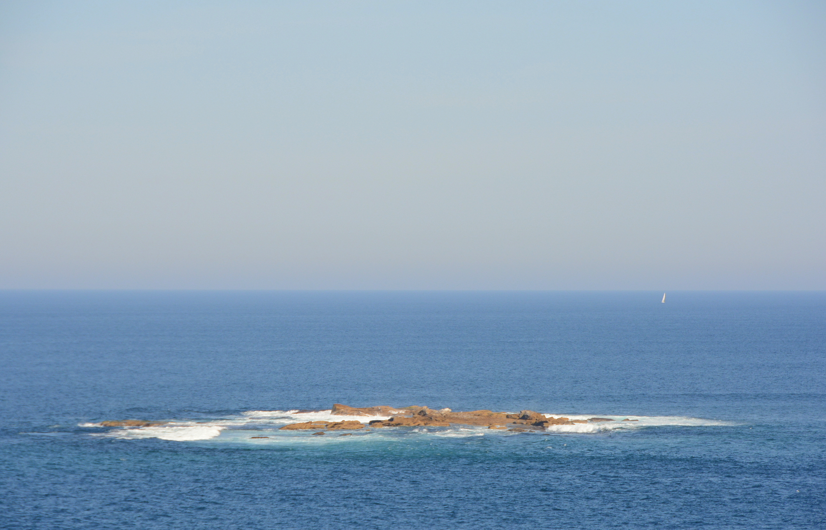 Wedding Cake Island, just off Coogee Beach, Coogee, Sydney